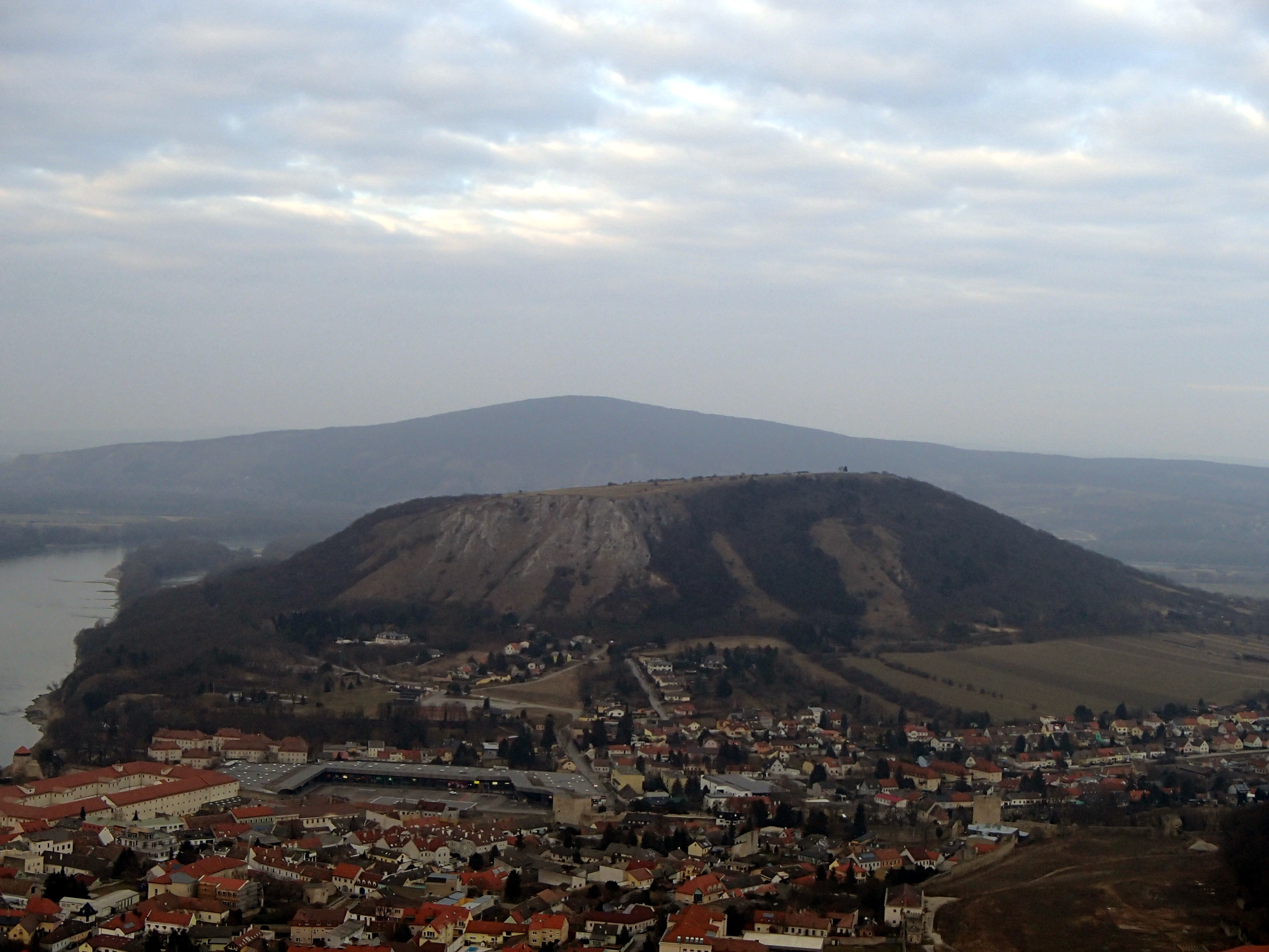 Braunsberg above Hainburg